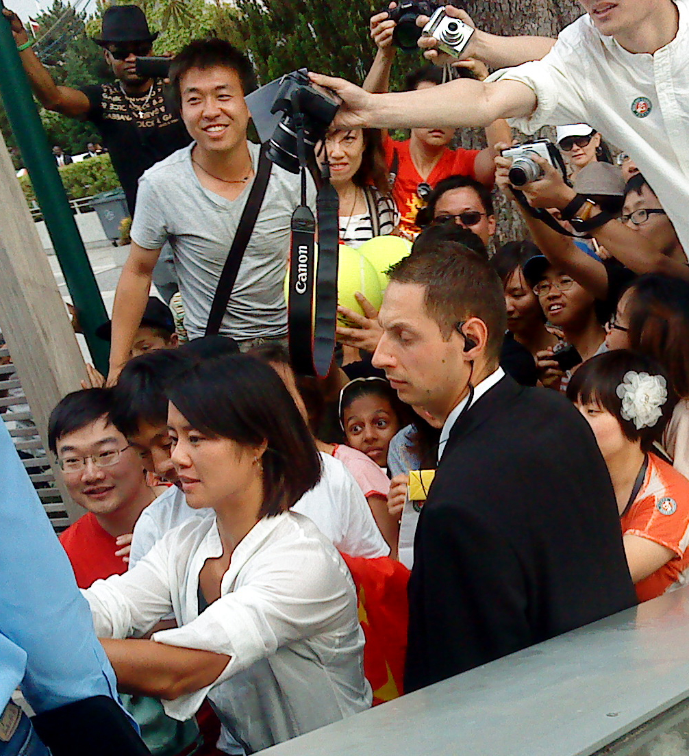 Li Na after his french open victory 2011